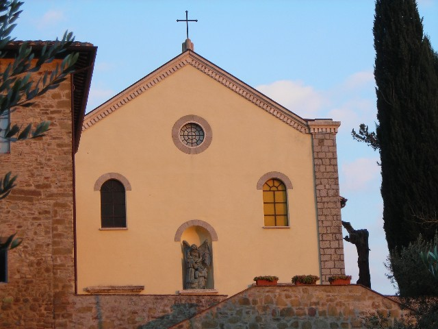 Church of the benedictine abbey of Farneto, Perugia, Umbria, Italy